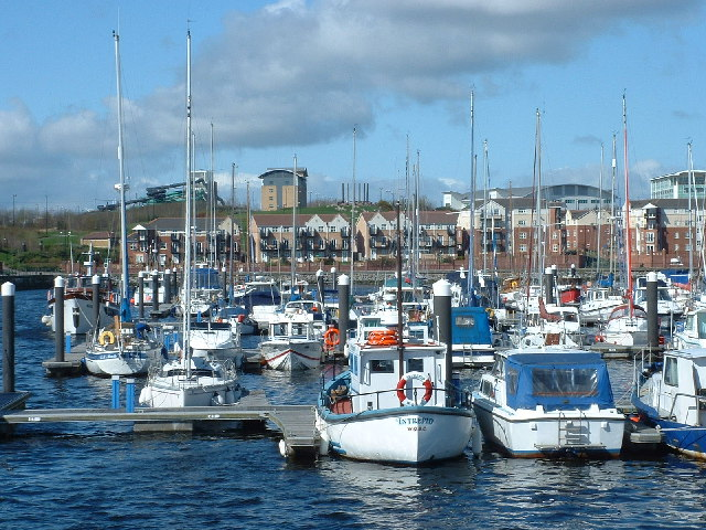 Marina at the Royal Quays. Hundreds of vessels lie waiting to set out along the Tyne to the North Sea. Houses and apartments flank the Marina